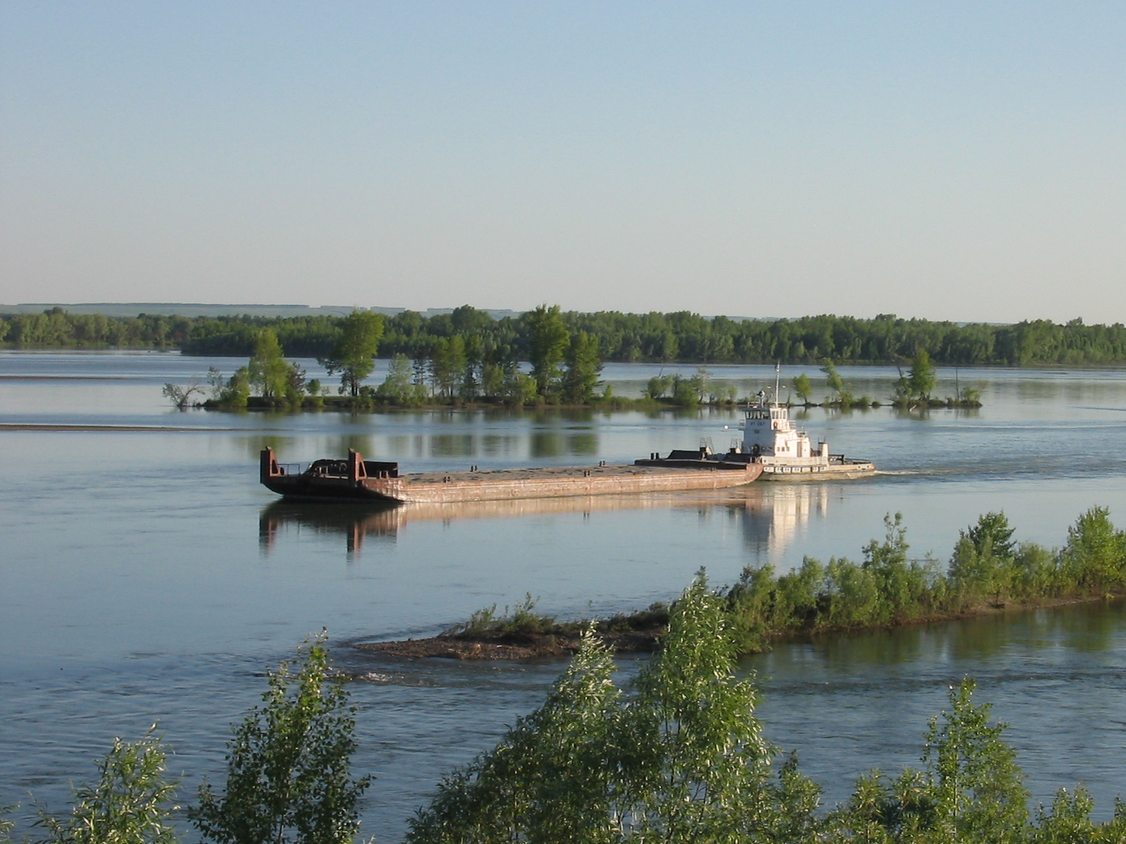 Tug-pusher ship type RT on Ob River (Russia).